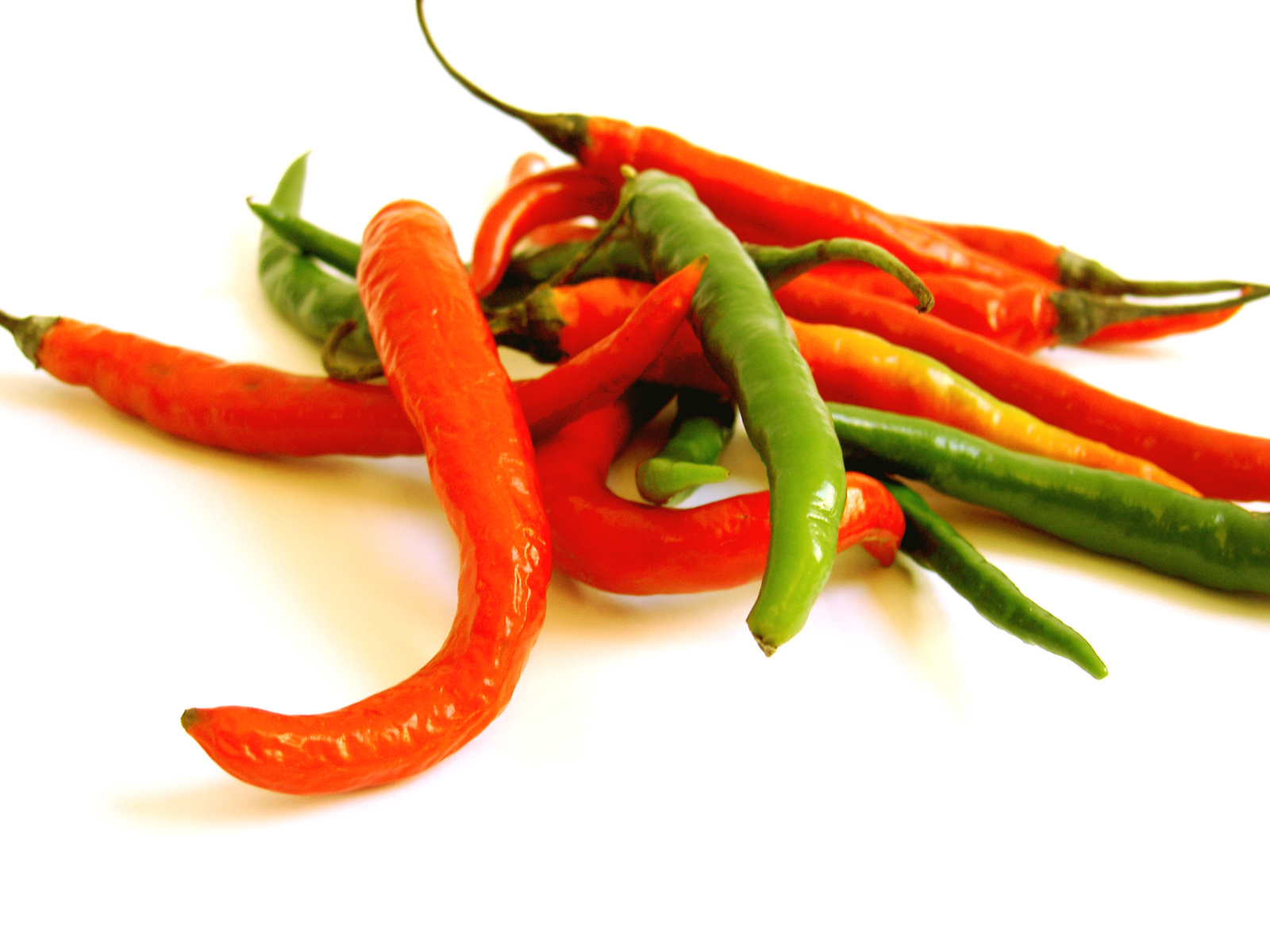 Chilis